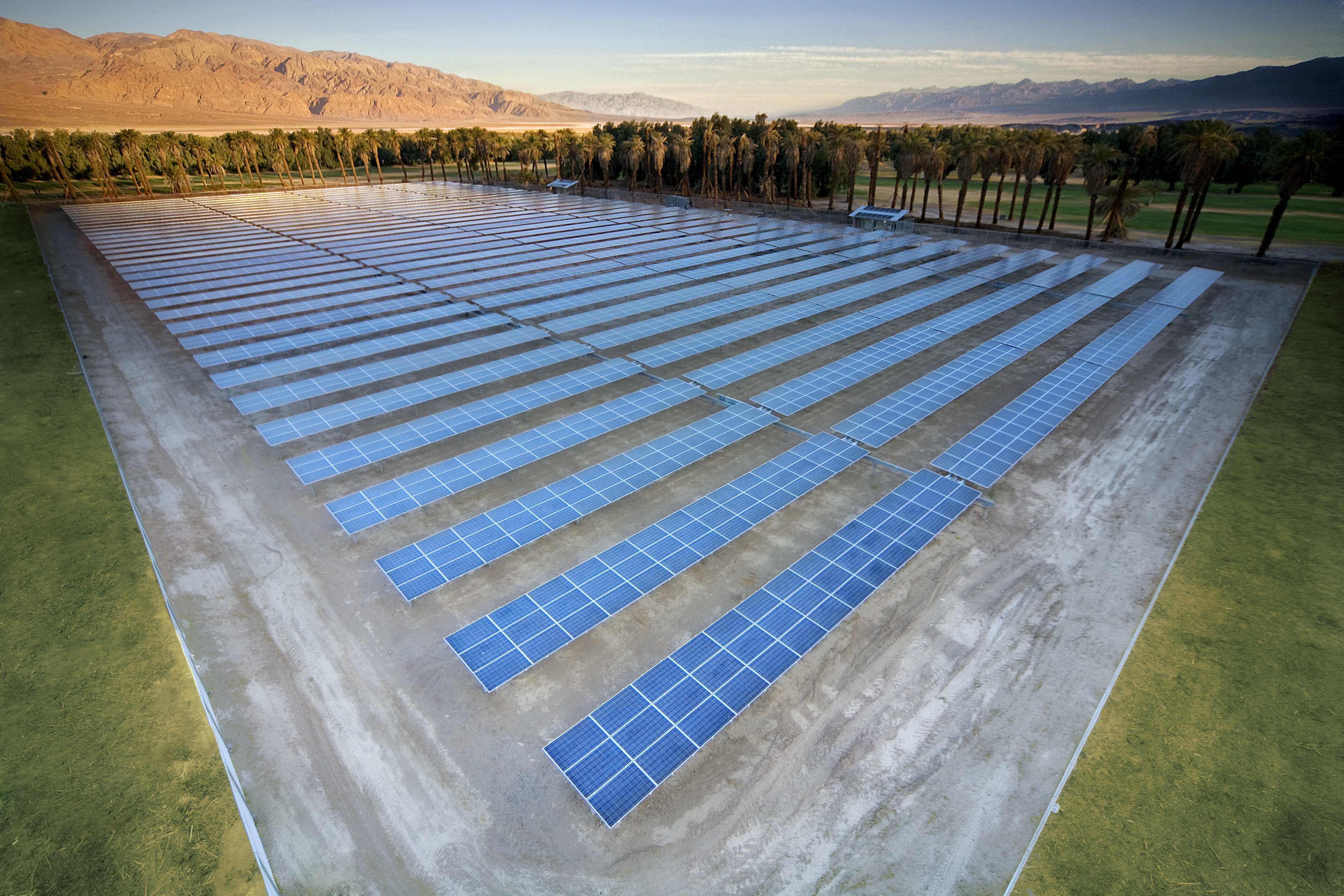 Photovoltaic power station at Furnace Creek Ranch, in Death Valley, California.